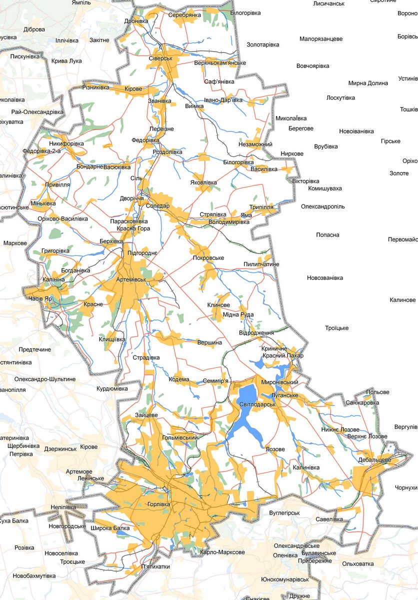 Map of Artemivsk Raion